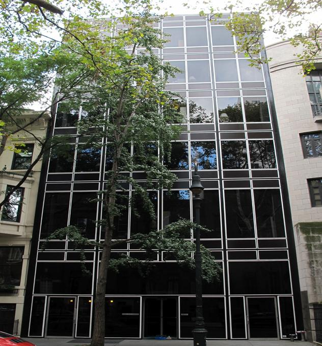 The headquarters of Russell Sage Foundation, at 112 E. 64th St. in New York City, NY.